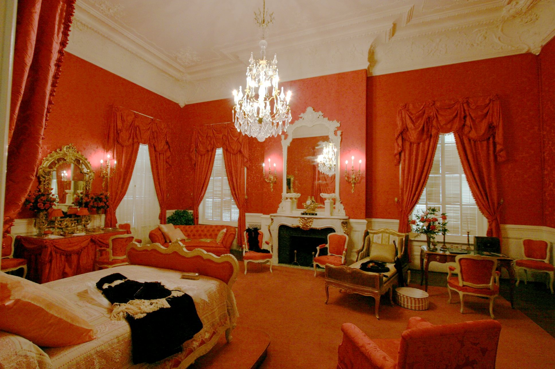 Photograph of the bedroom of Ruth Livingston Mills in the Mills Mansion in the Staatsburgh State Historic Site, New York, USA.